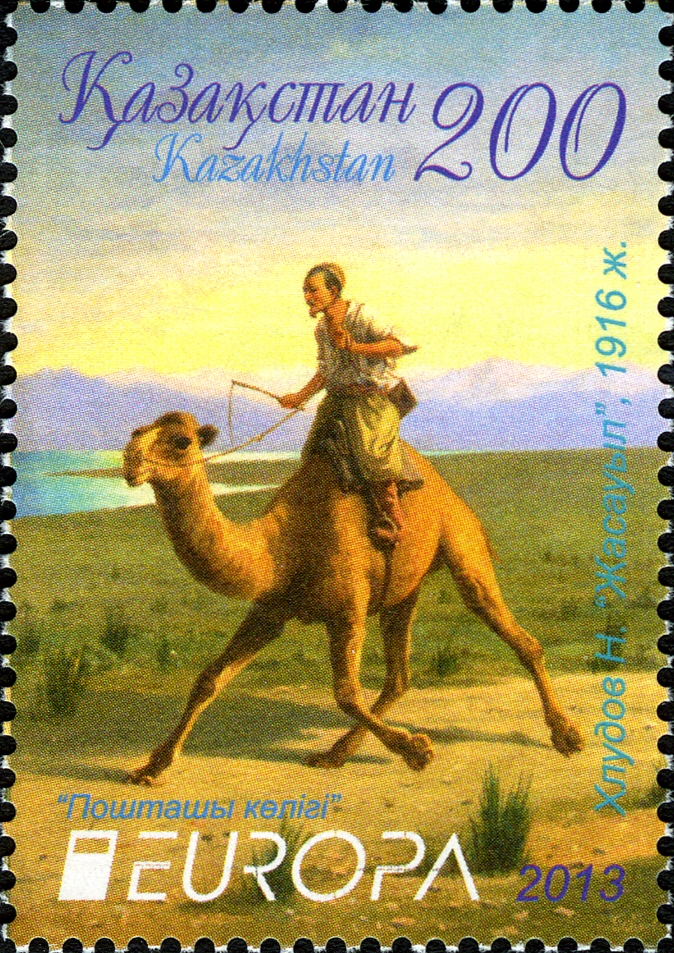 Stamps of Kazakhstan, 2013